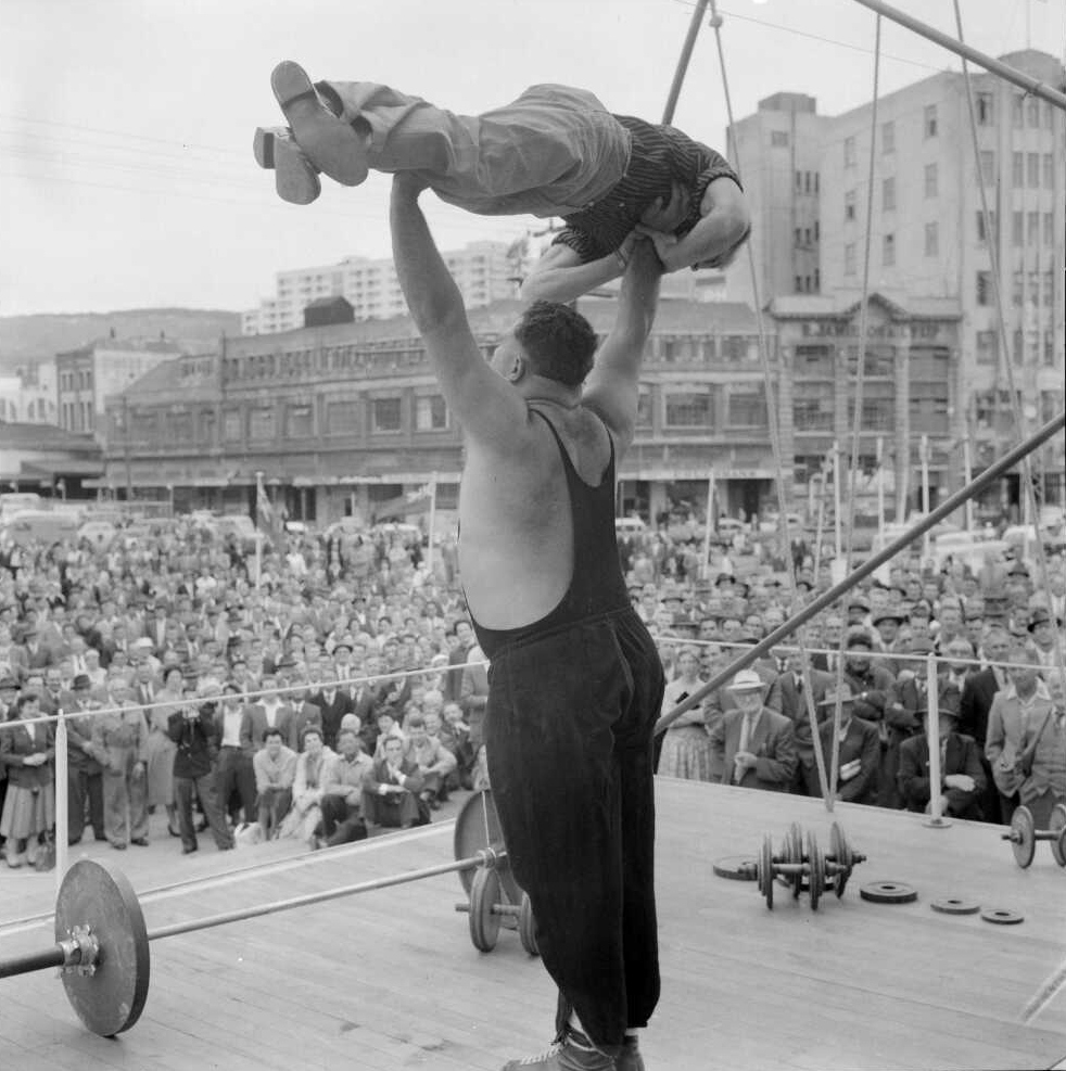 Weightlifter Hugh Jones lifting a man during a demonstration in Civic Square, Wellington